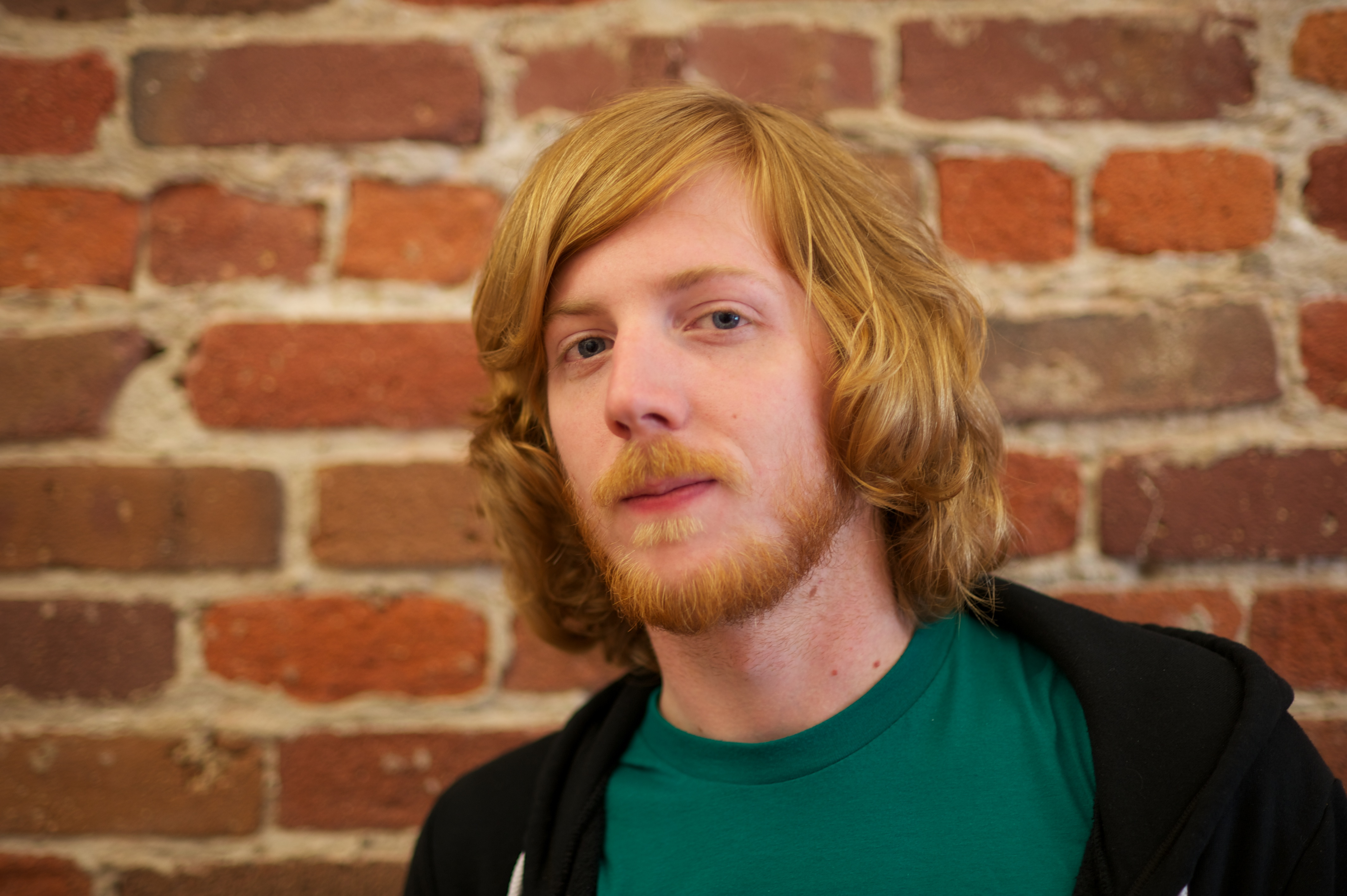 The picture of Chris Wanstrath, CEO at GitHub